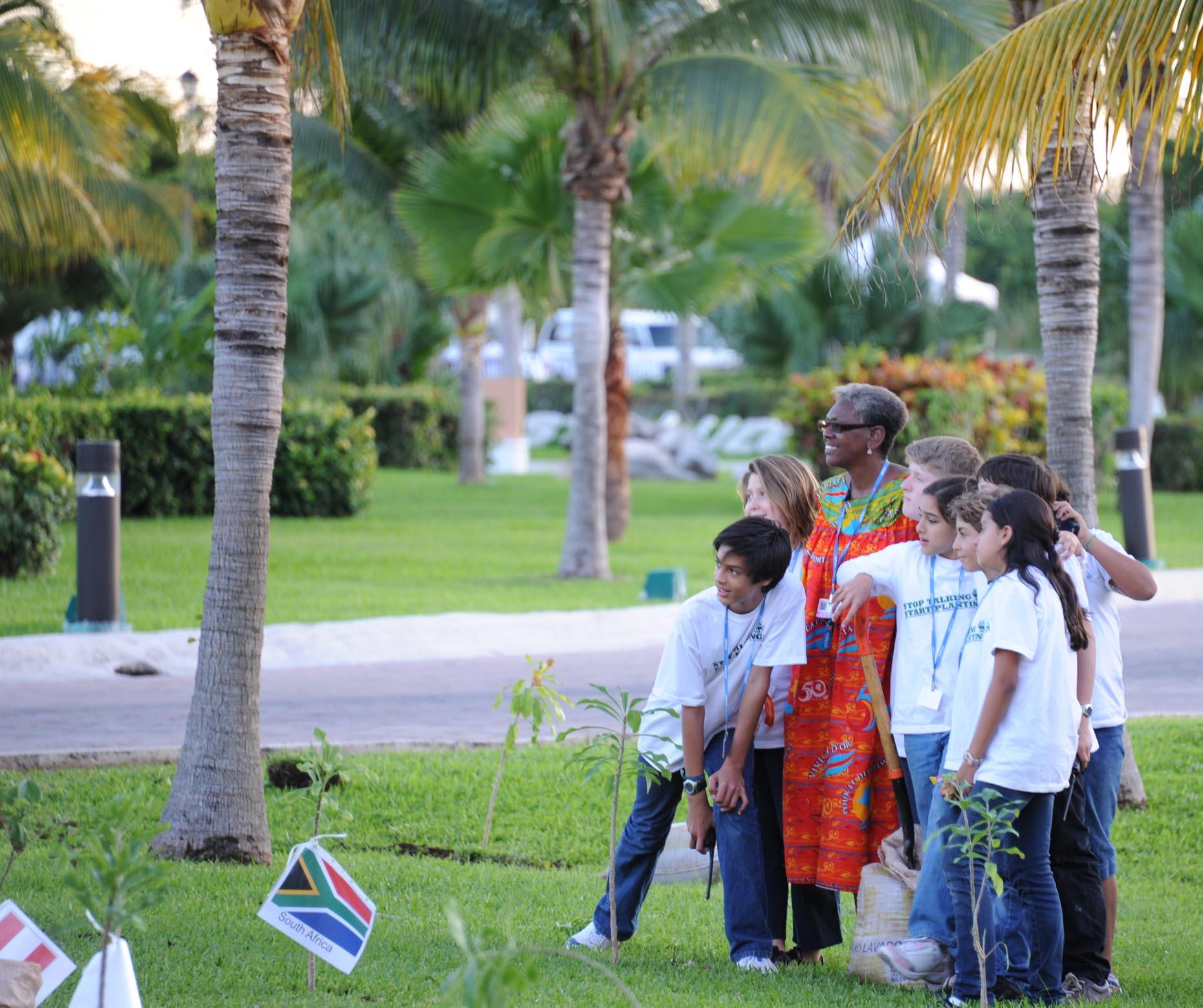 Children from the climate youth organisation "Plant for the Planet" after a tree planting event at the Climate Change Conference COP in Cancun 2010